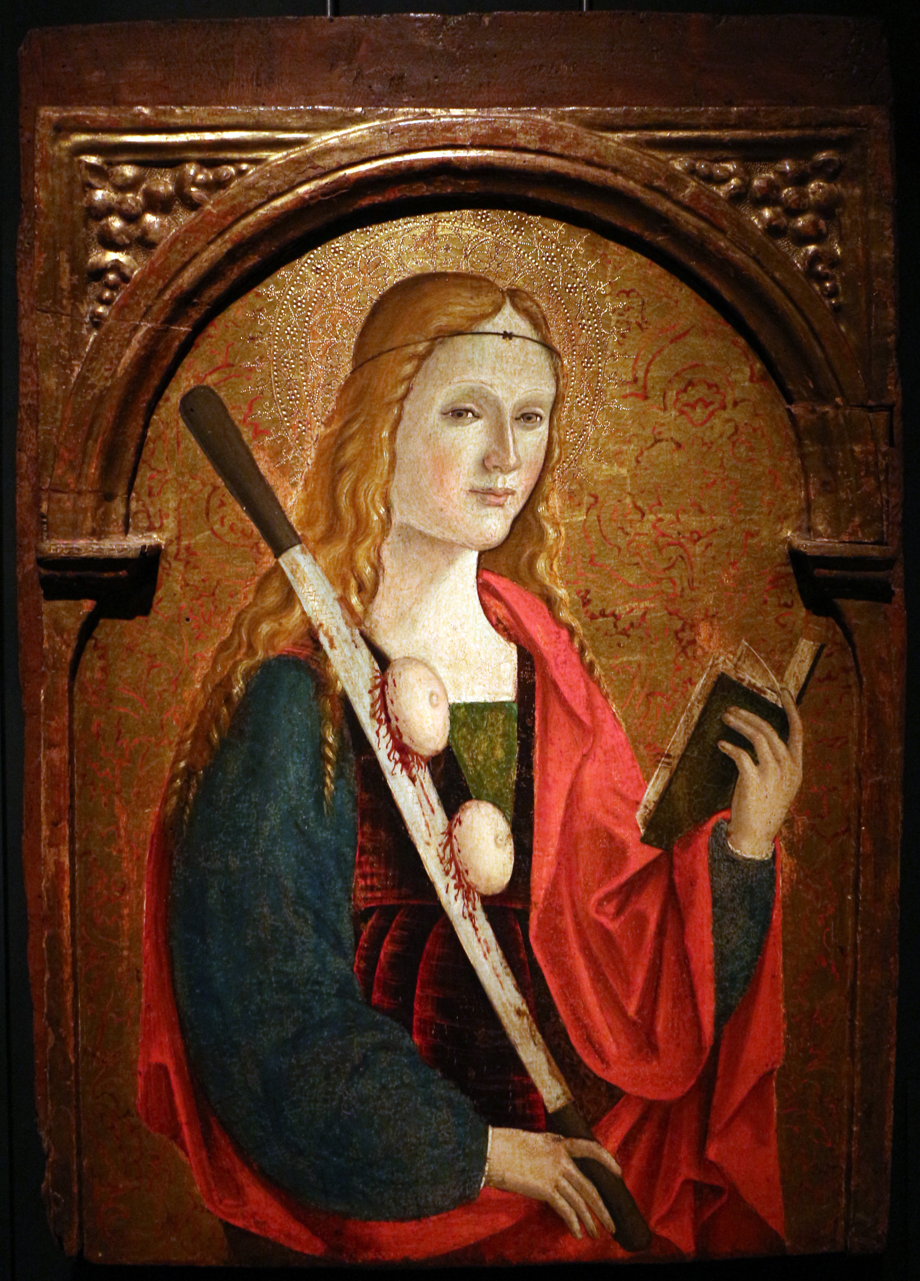 Museo Adriano Bernareggi